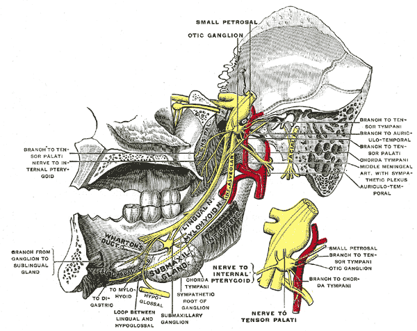 Mandibular division of trifacial nerve, seen from the middle line. The small figure is an enlarged view of the otic ganglion. (Testut.)